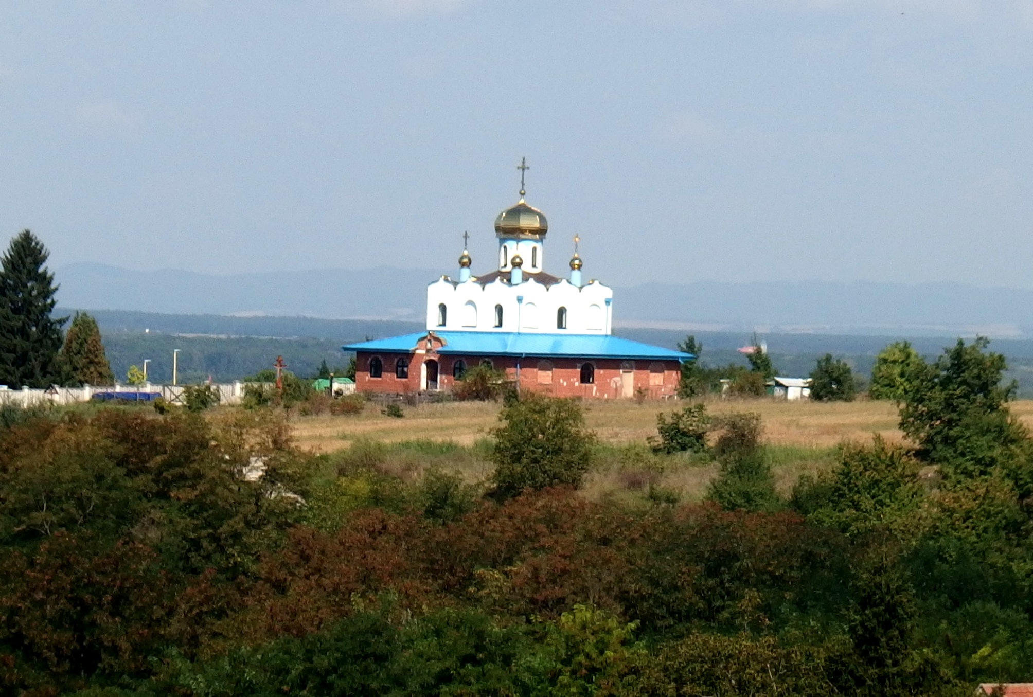 Holíč, Skalica.District, Slovakia.